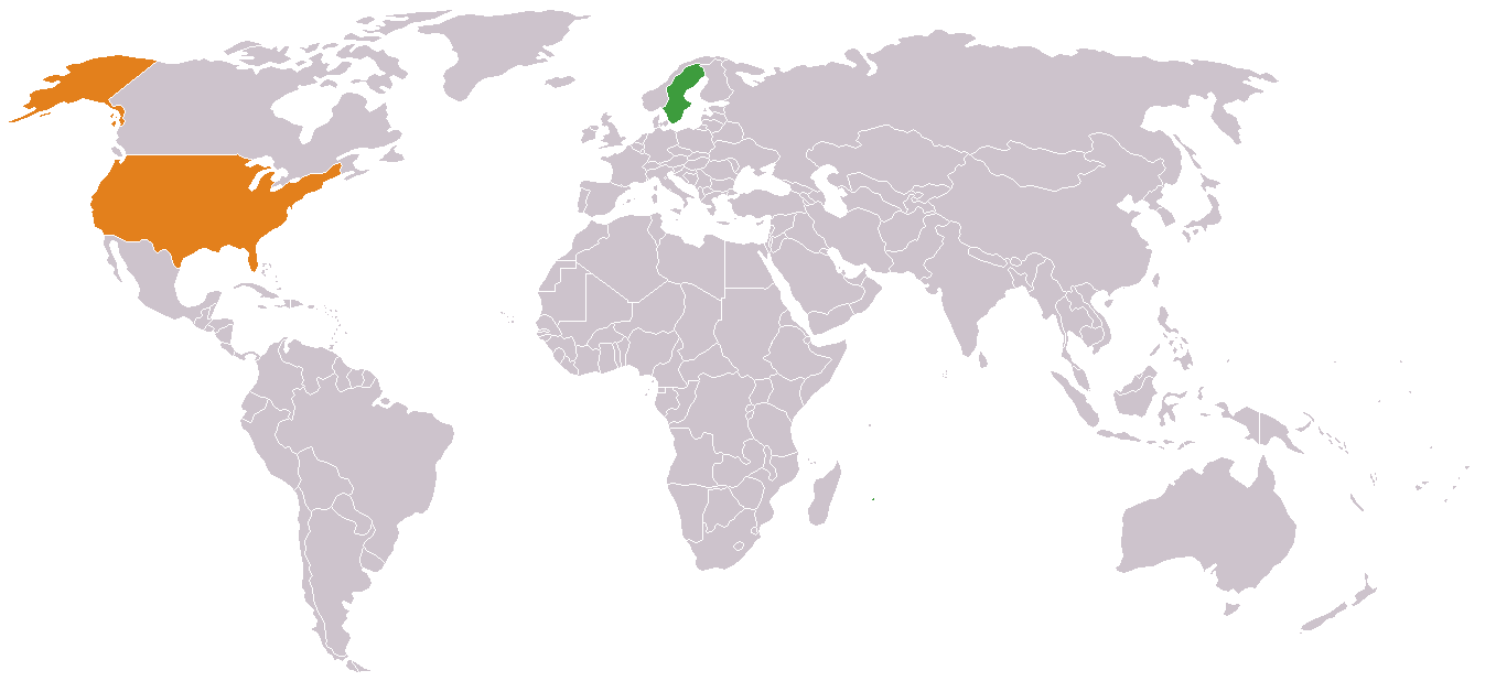 Created by myself to accompany the Swedish-American relations article, using the standard "blank world map".